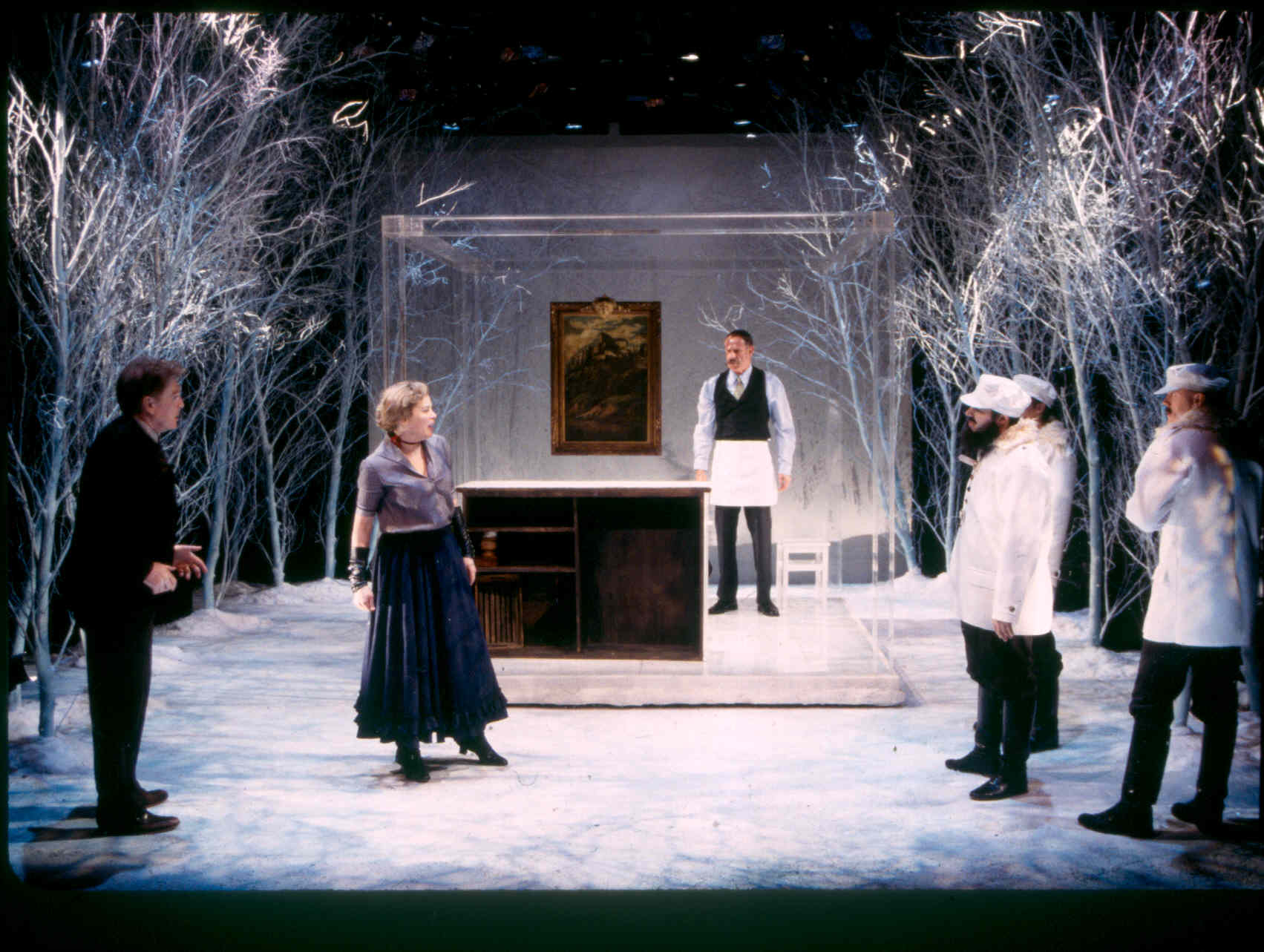 (left to right:) William Atherton, Catherine Curtin, Dan Ziskie, Steven Rosen, Raynor Scheine and Sean McCourt in "Franz Kafka's The Castle" at Manhattan Ensemble Theater, SoHo, NYC. Date: January 6, 2002.